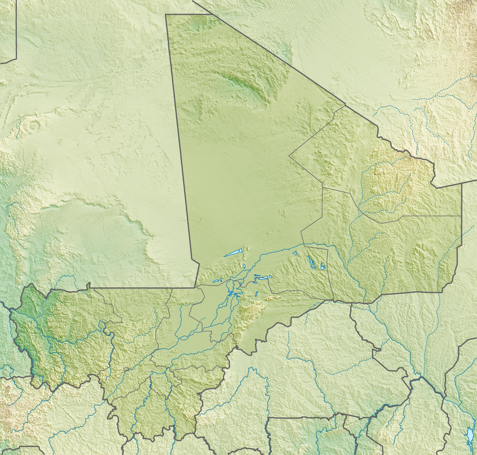 Physical location map of Mali Equirectangular projection, N/S stretching 105 %. Geographic limits of the map: N: 25.5° N S: 9.7° N W: 12.6° W E: 4.8° E